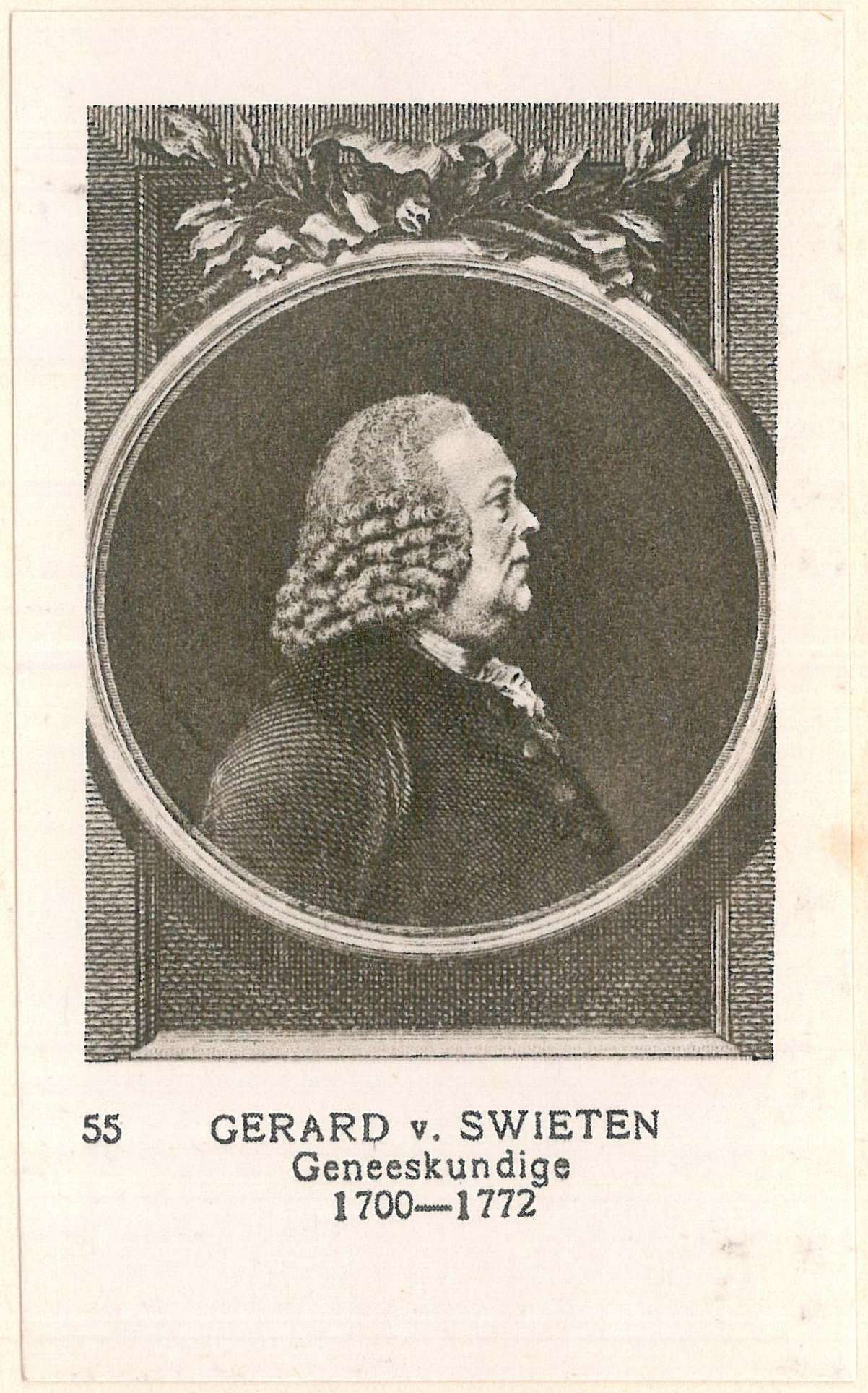 Portrait of Gerard van Swieten (1700-1772), Dutch physician